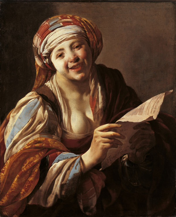 Young Woman Reading from a Sheet of Paper